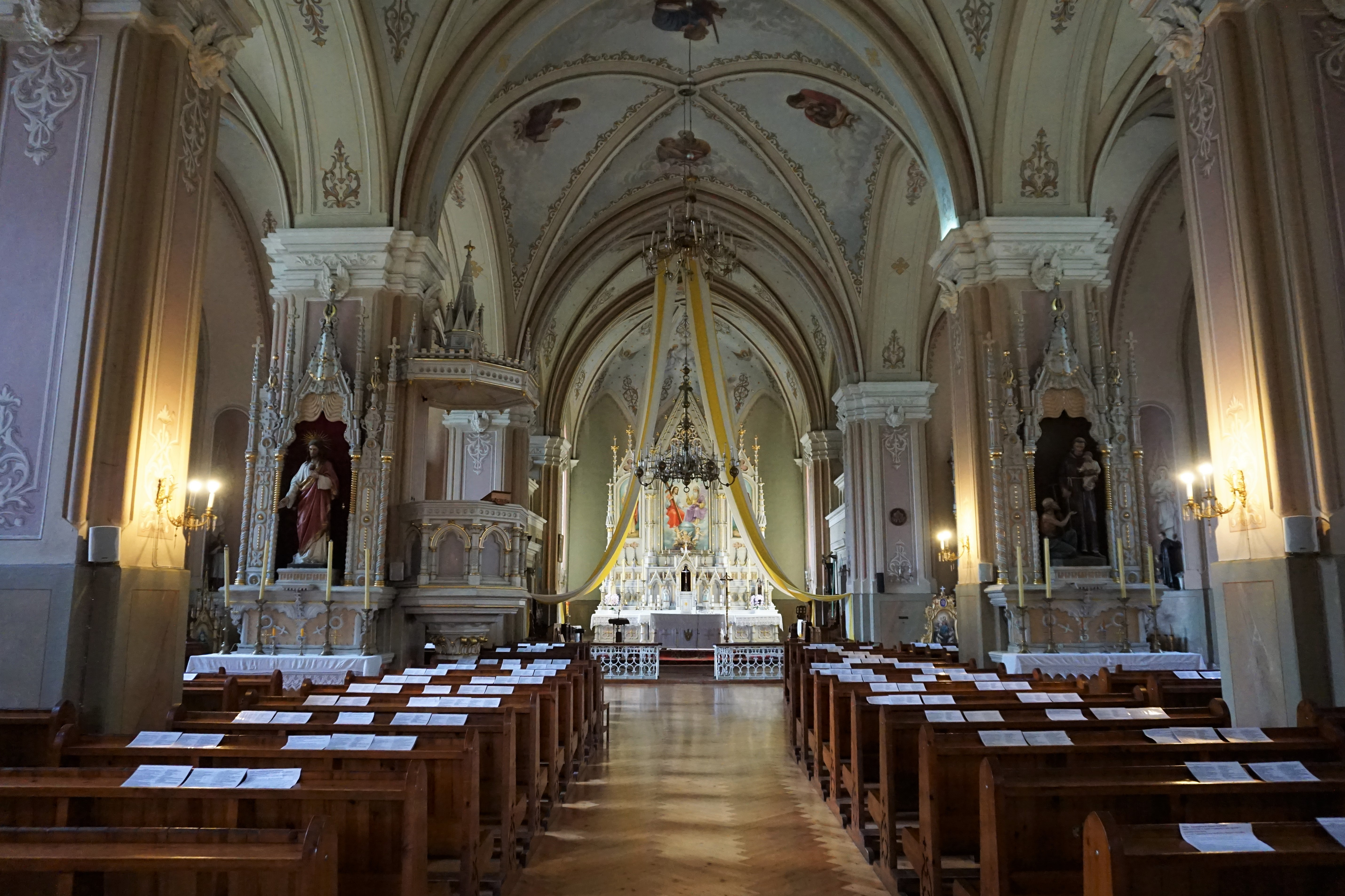 Interior of the Holy Trinity church in Užpaliai, Lithuania